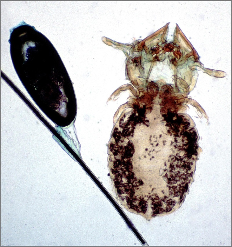 Photograph of a parasitic insect of domestic animals